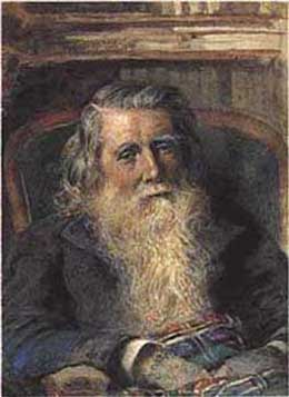 Portrait of John Ruskin, by Arthur Severn